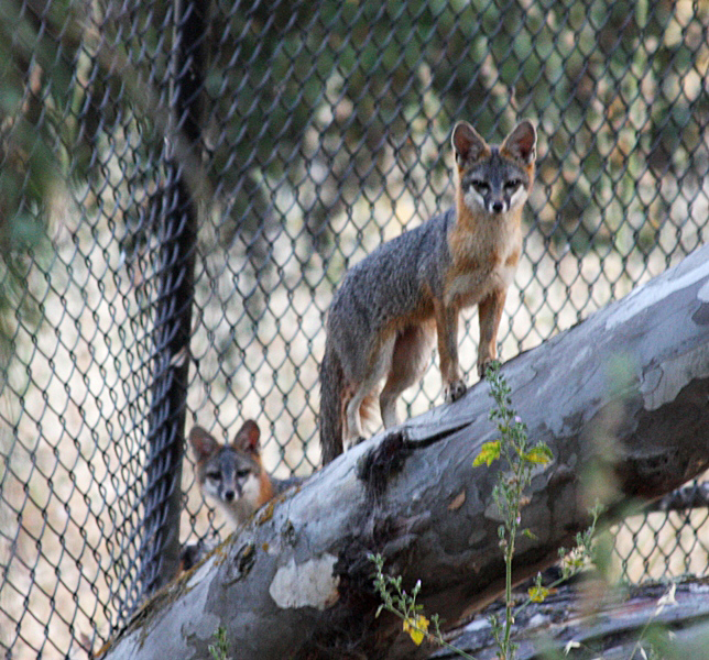 Gray Fox in Palo Alto's Matadero Creek lower watershed.